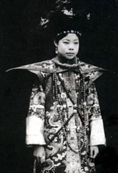 Wen Xiu